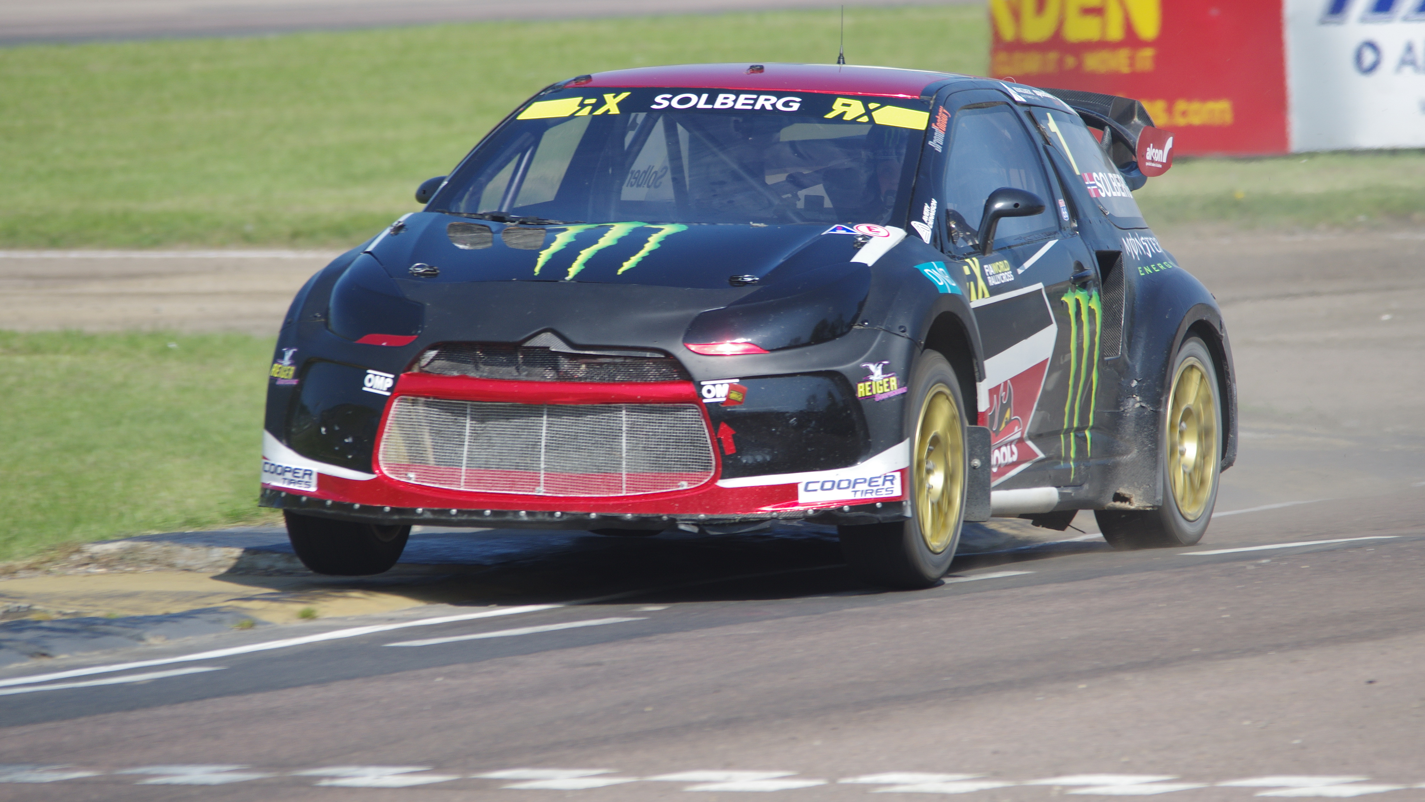 Saturday 28th May. Petter Solberg on top form at Lydden Hill.